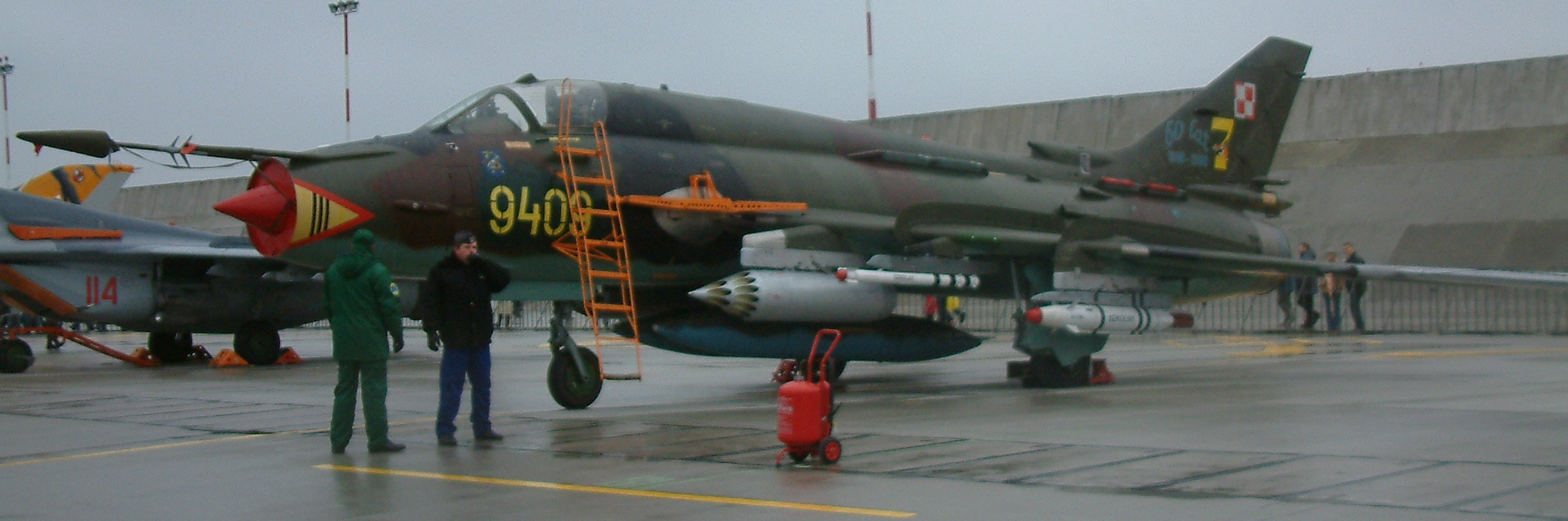 Su-22M4K (Su-17M4K) #9409 of Polish Air Force with markings of 7th Tactical Sqd., 31st. Air Base Poznań-Krzesiny